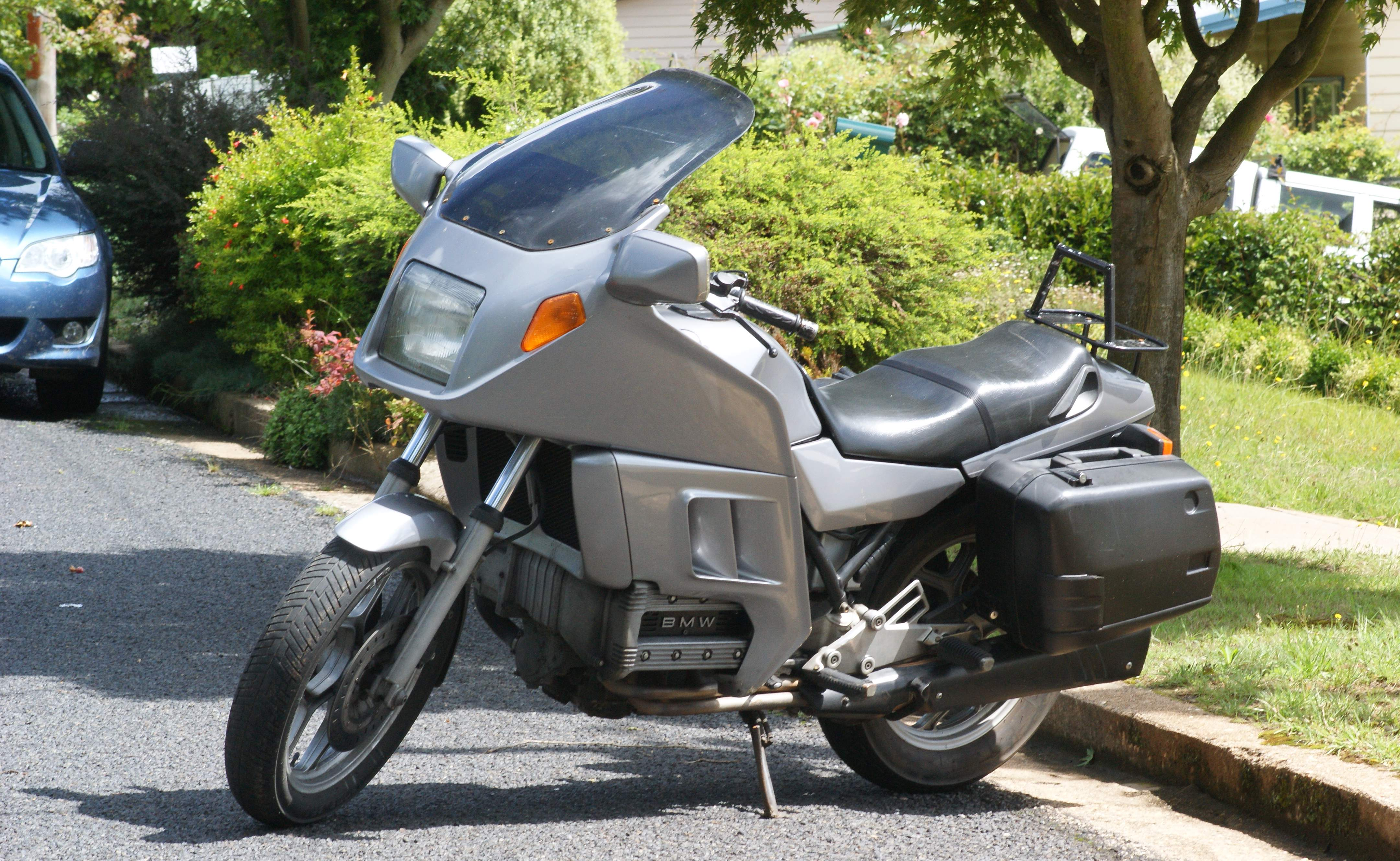 BMW K100RT touring motorcycle